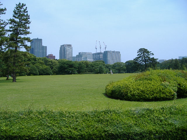 Honmaru area at the East Gardens of Tokyo Imperial Palace